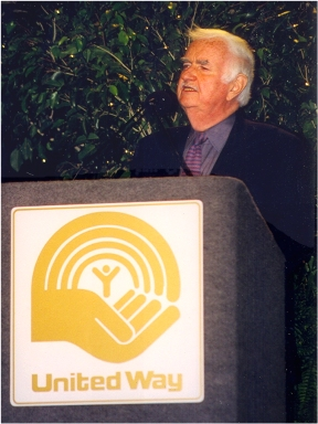 Bob Keeshan speaking for United Way at Bok Tower - April 1999 Photo by Alan C. Teeple User:ACT1